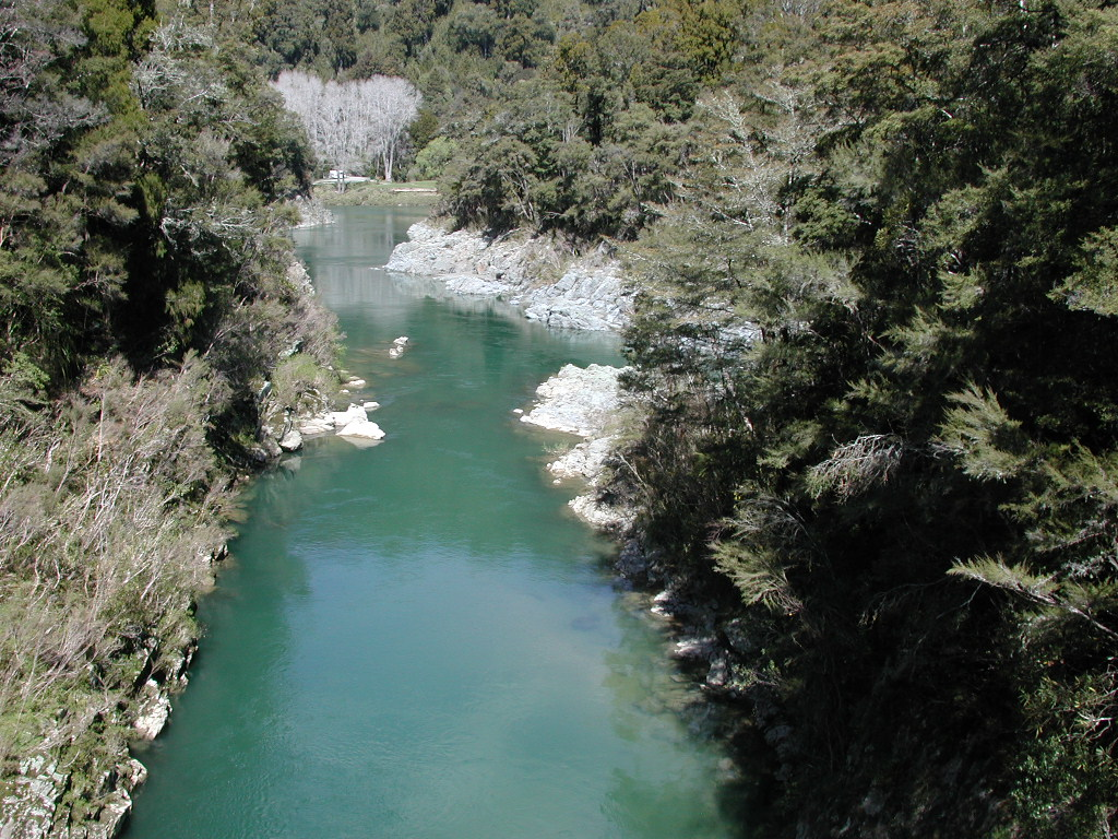 Rai River and Pelorus River from swing bridge in Pelorus Bridge Scenic Reserve. Rai River flows away from the bridge and into Pelorus River, which comes from the right in the picture and continues towards the picnic area in the distance.